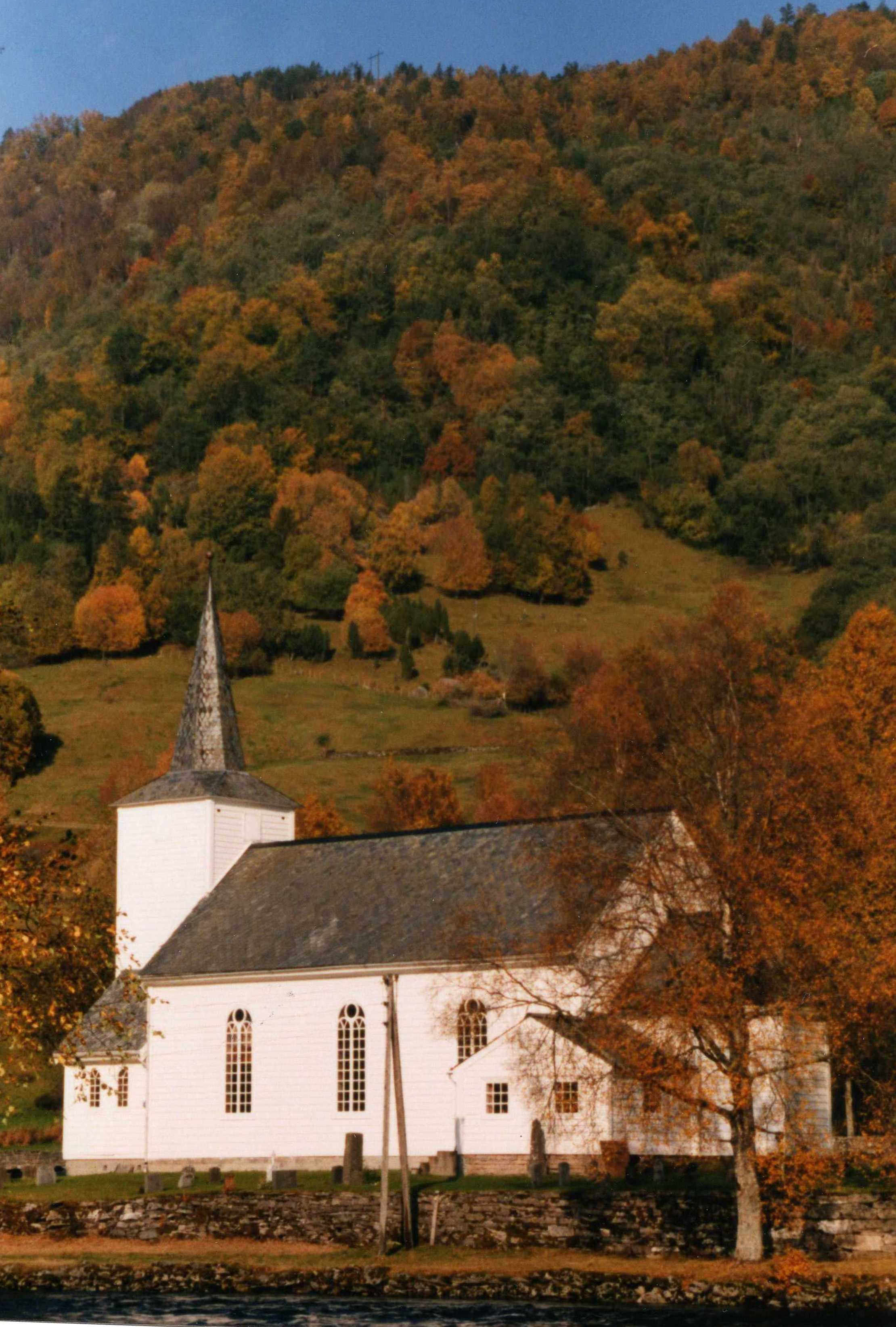 The church at Sande in Gaular municipality, Sogn og Fjordane county, Norway